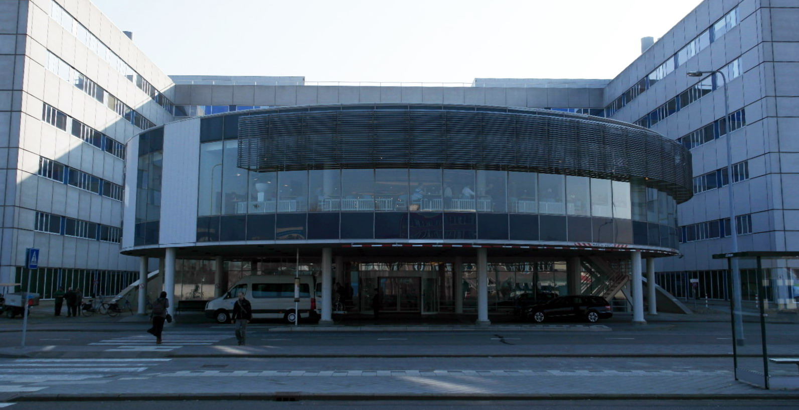 Maastricht, the Netherlands. View of the main entrance of the university hospital in the district of Randwyck.